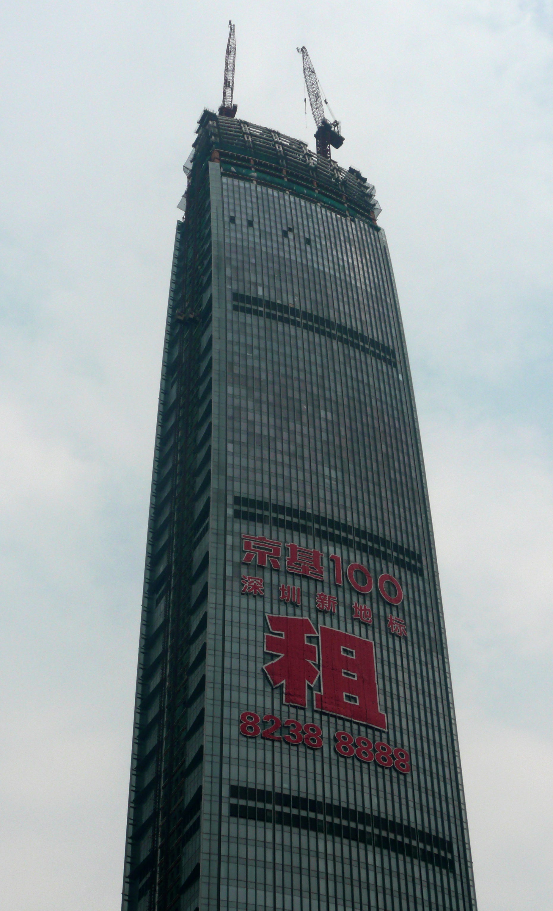 Kingkey-100 Tower in Shenzhen, China